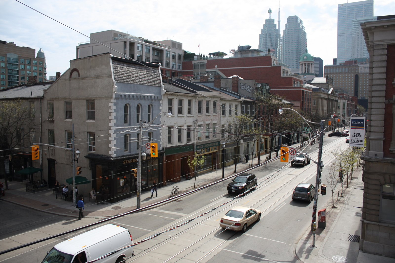 View from George Brown College's Rooftop Patio